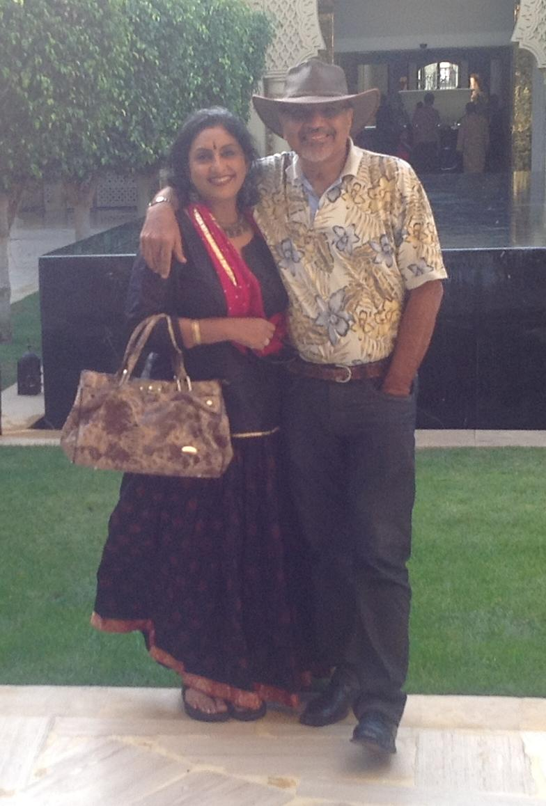 Picture of Swapna and Raman Khanna